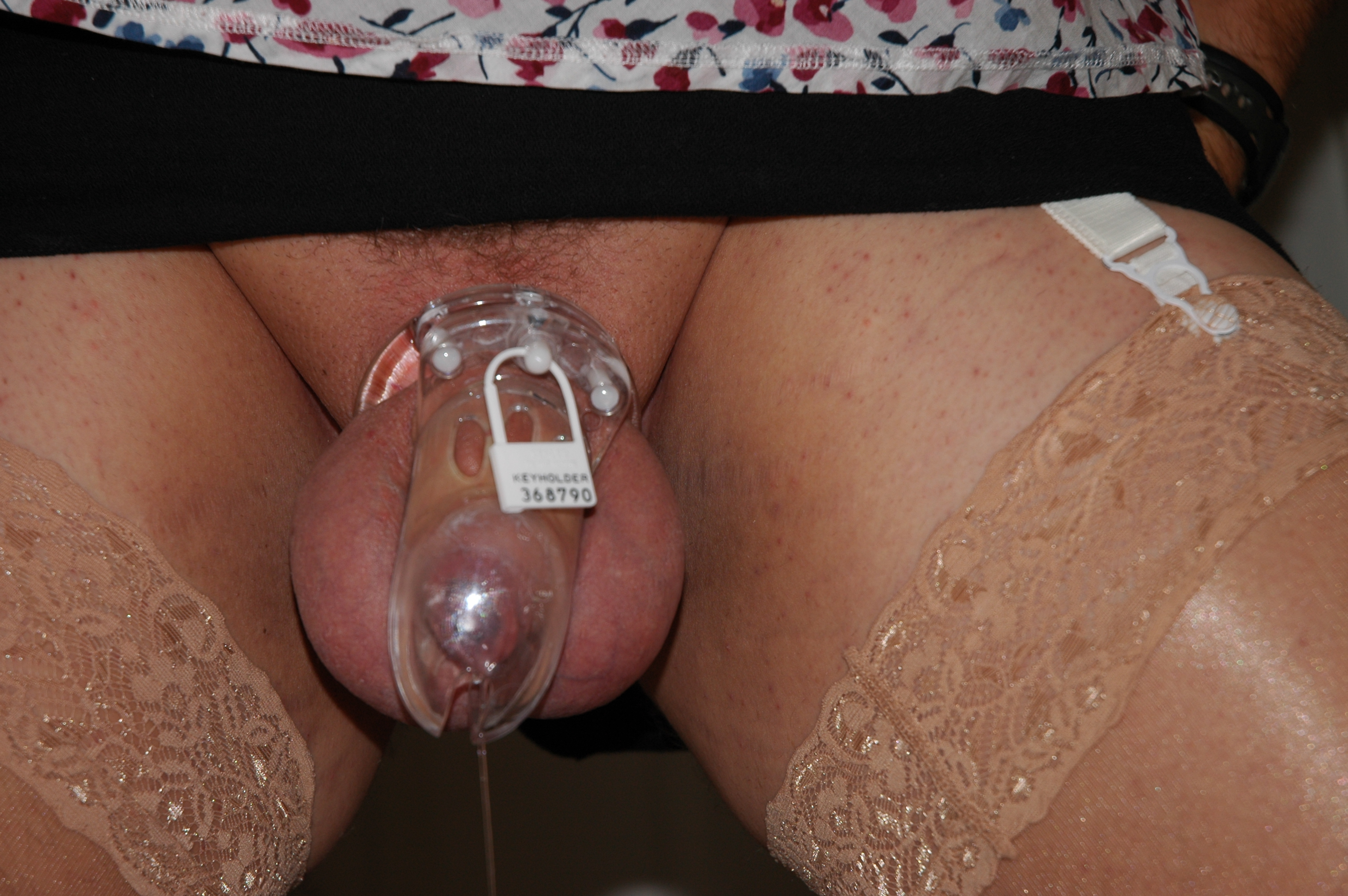 Original text: Getting frustrated locked in my CB3000